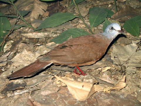 Description: Blue-headed Wood-dove - Source: own work - Location: American Museum of Natural History, New York - Author: self, User:Stavenn